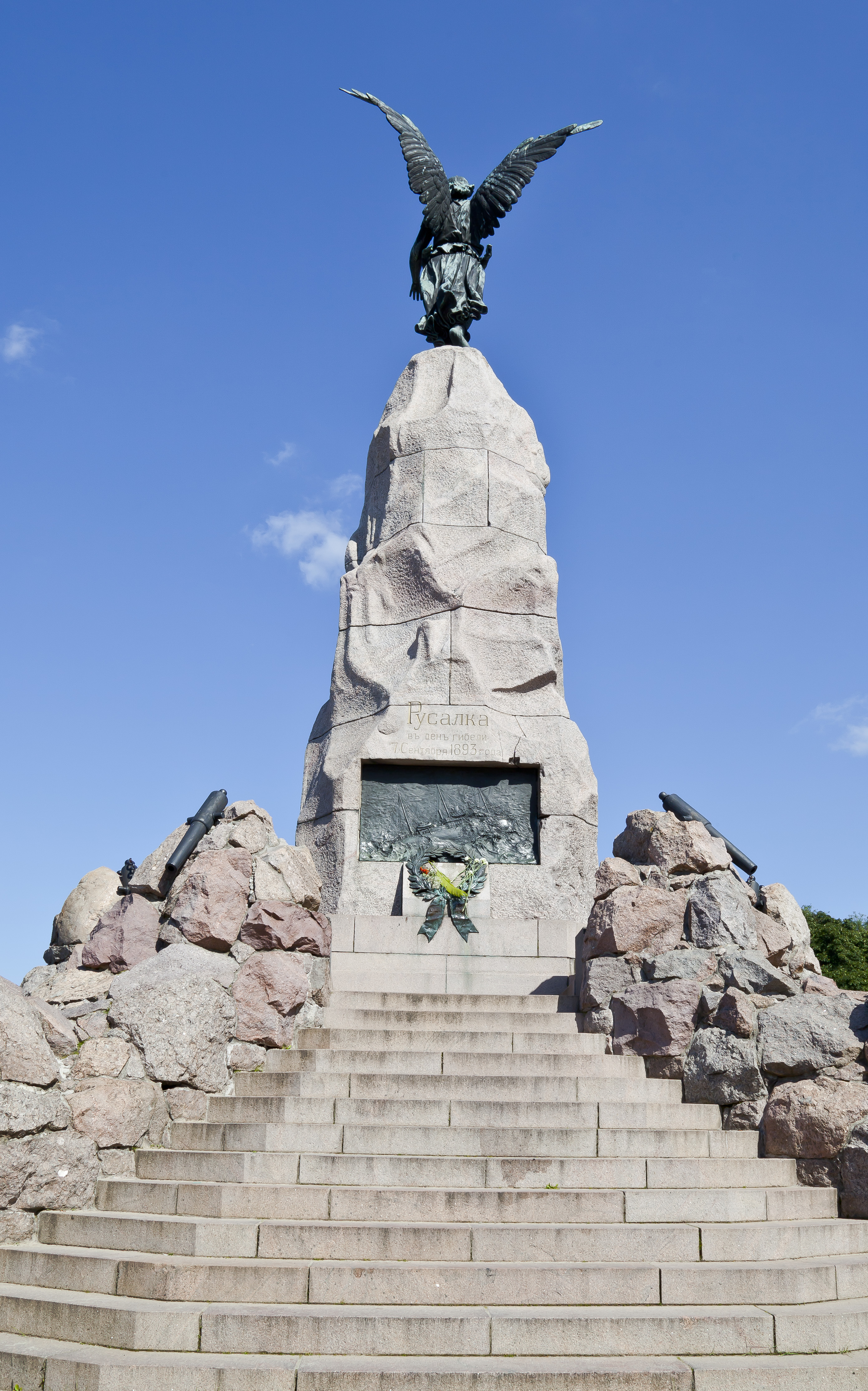 Rusalka Memorial, Tallinn, Estonia